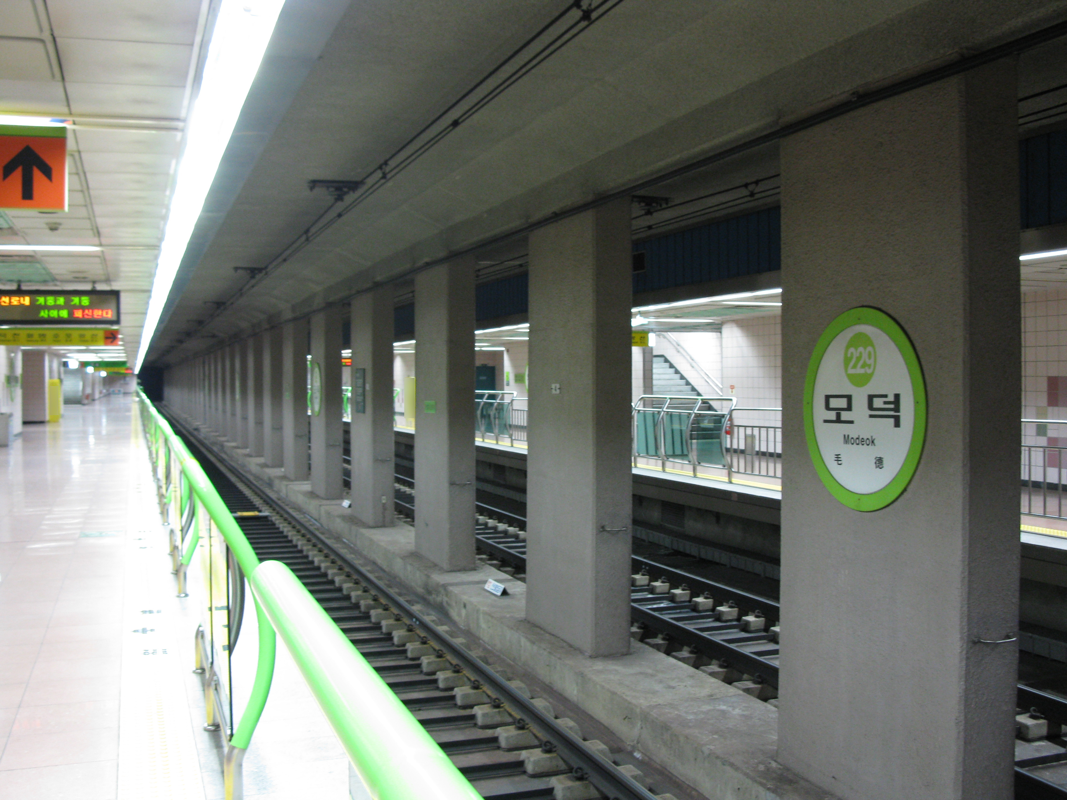 Modeok Station platform (Busan Subway Line 2)